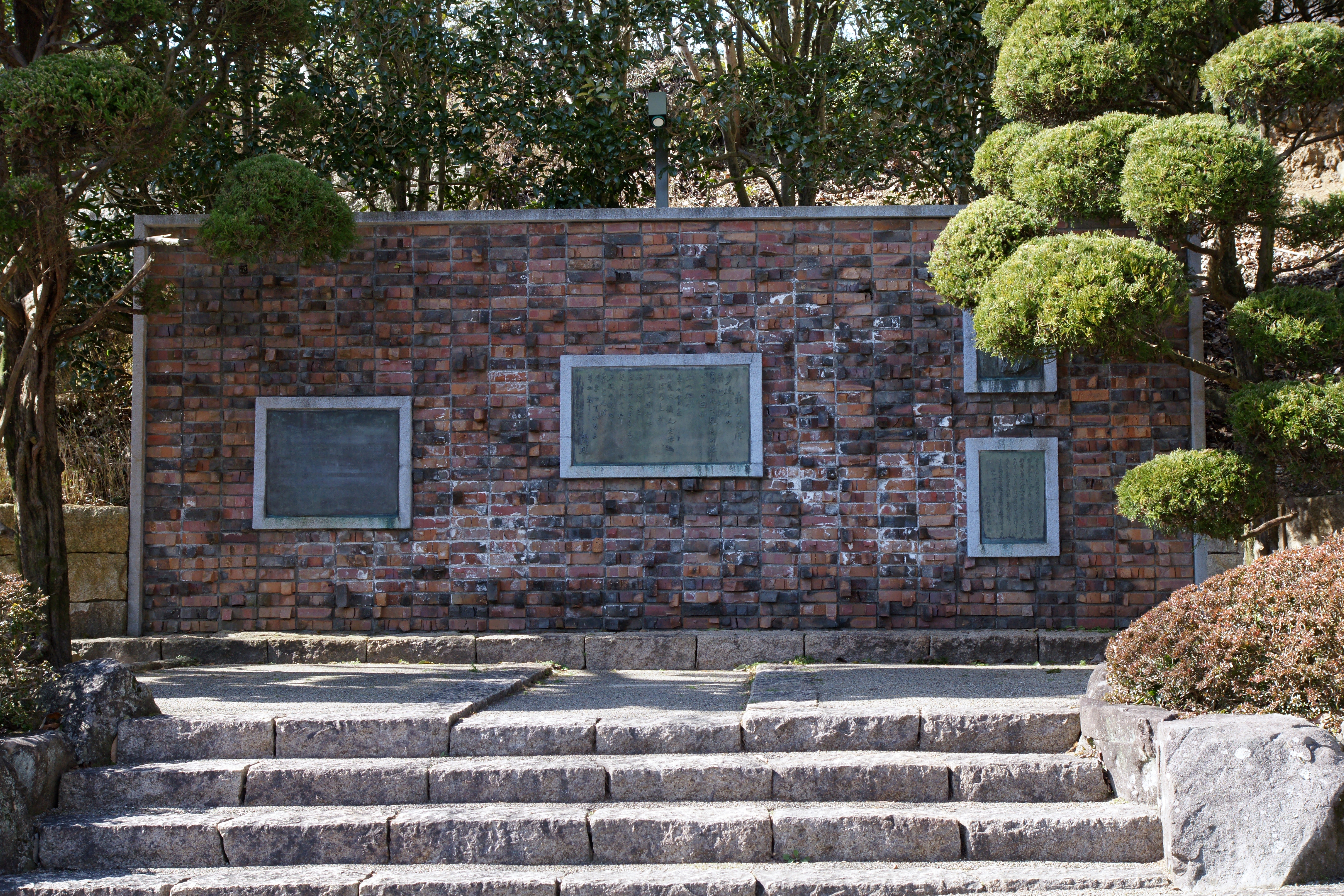 Aka-tombow Memorial in Tatsuno, Hyogo prefecture, Japan